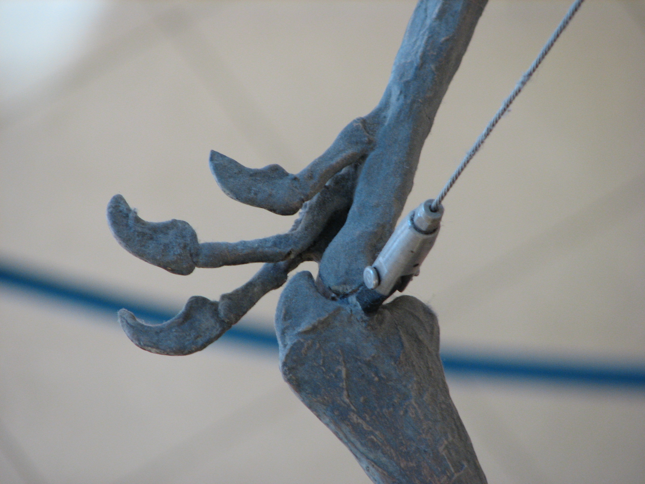 Pteranodon skeleton (view of left wing claw) on display at the University of California, Berkeley in VLSB